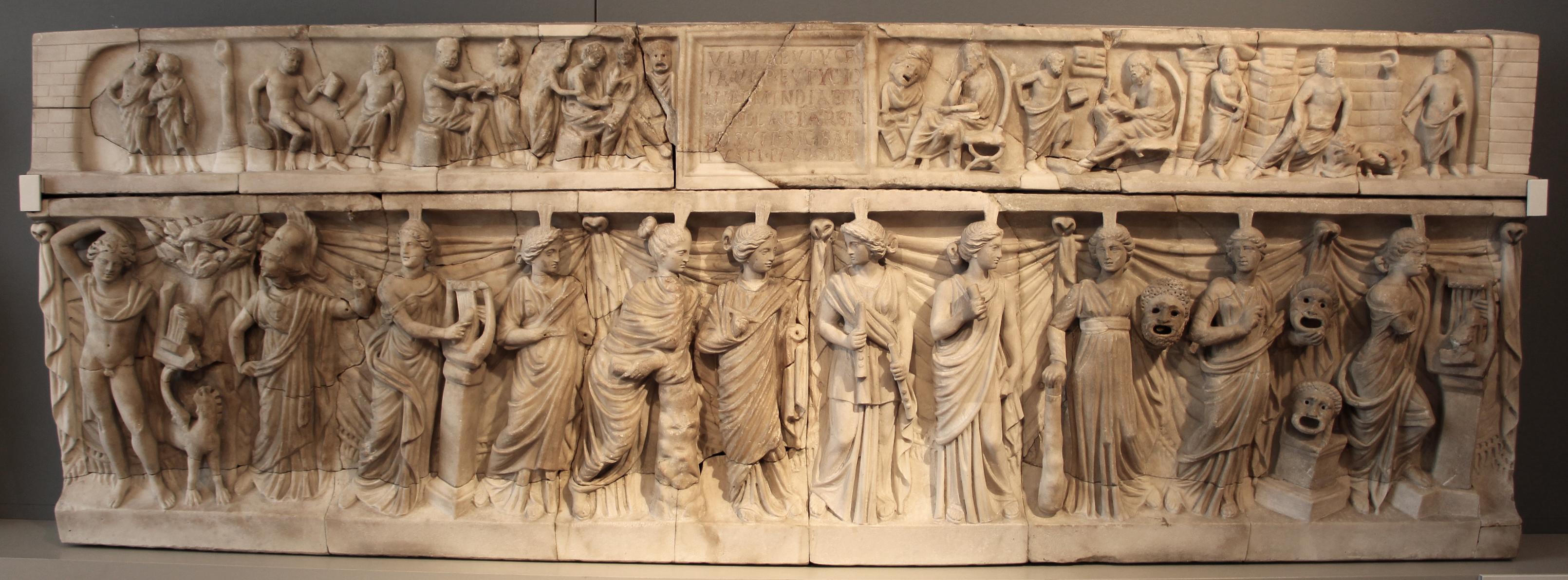 Ancient Roman reliefs in the Antikensammlung Berlin